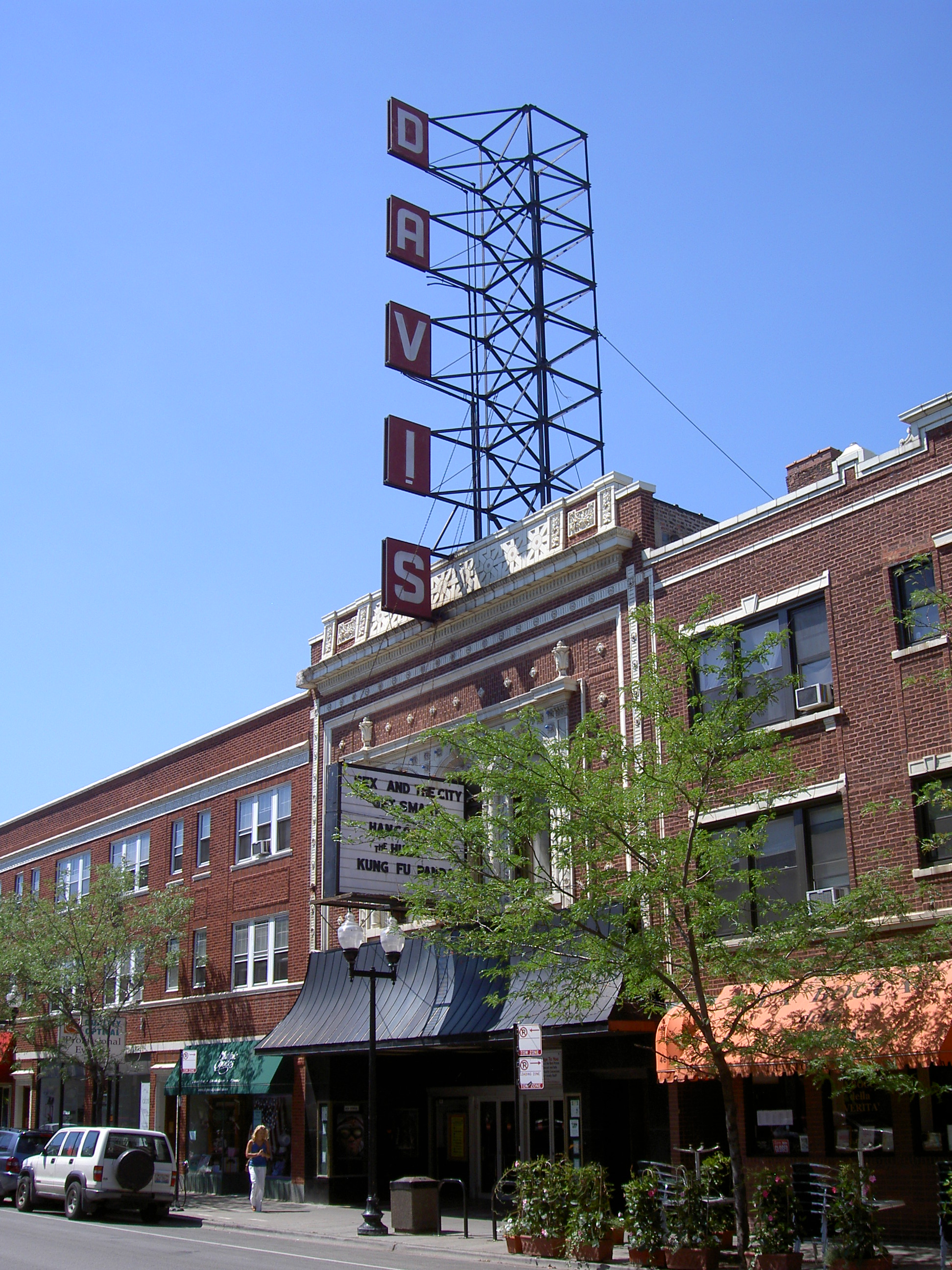 Photograph of The Davis Theater in the Lincoln Square neighborhood of Chicago.